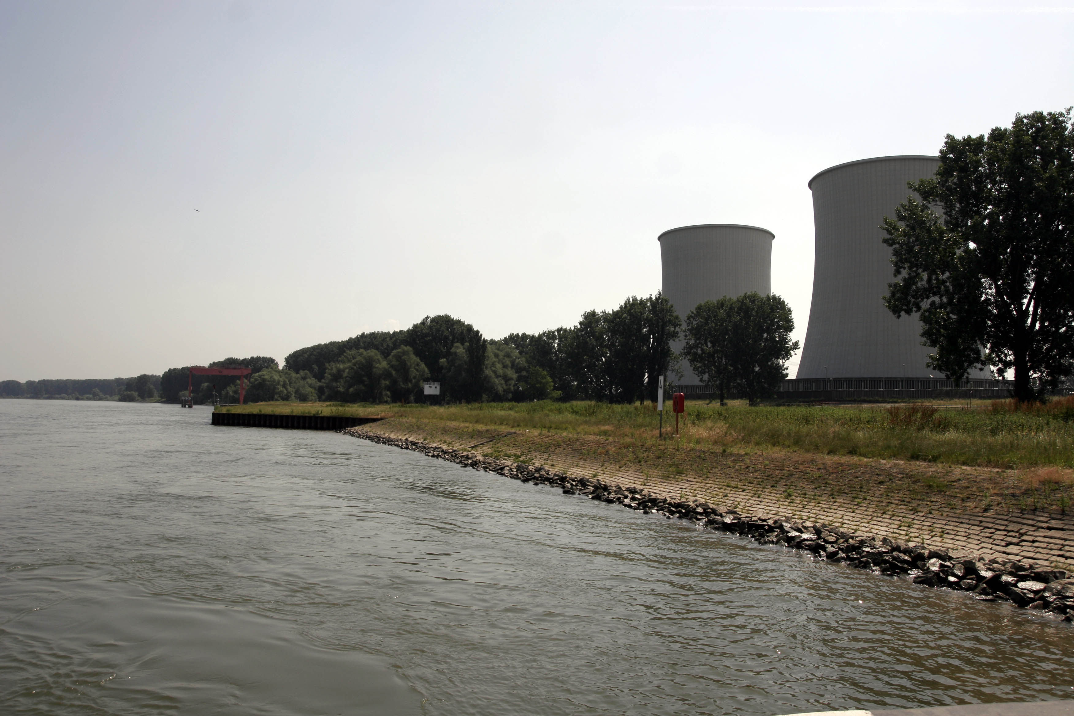 Biblis Nuclear Power Plant (Germany), cooling towers from block B seen from South-West and the Rhine river.